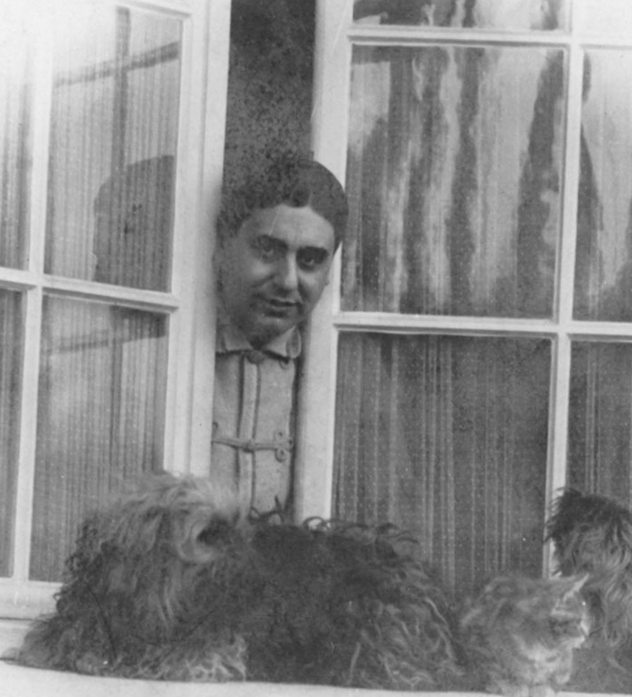 Léonce Perret's photo.